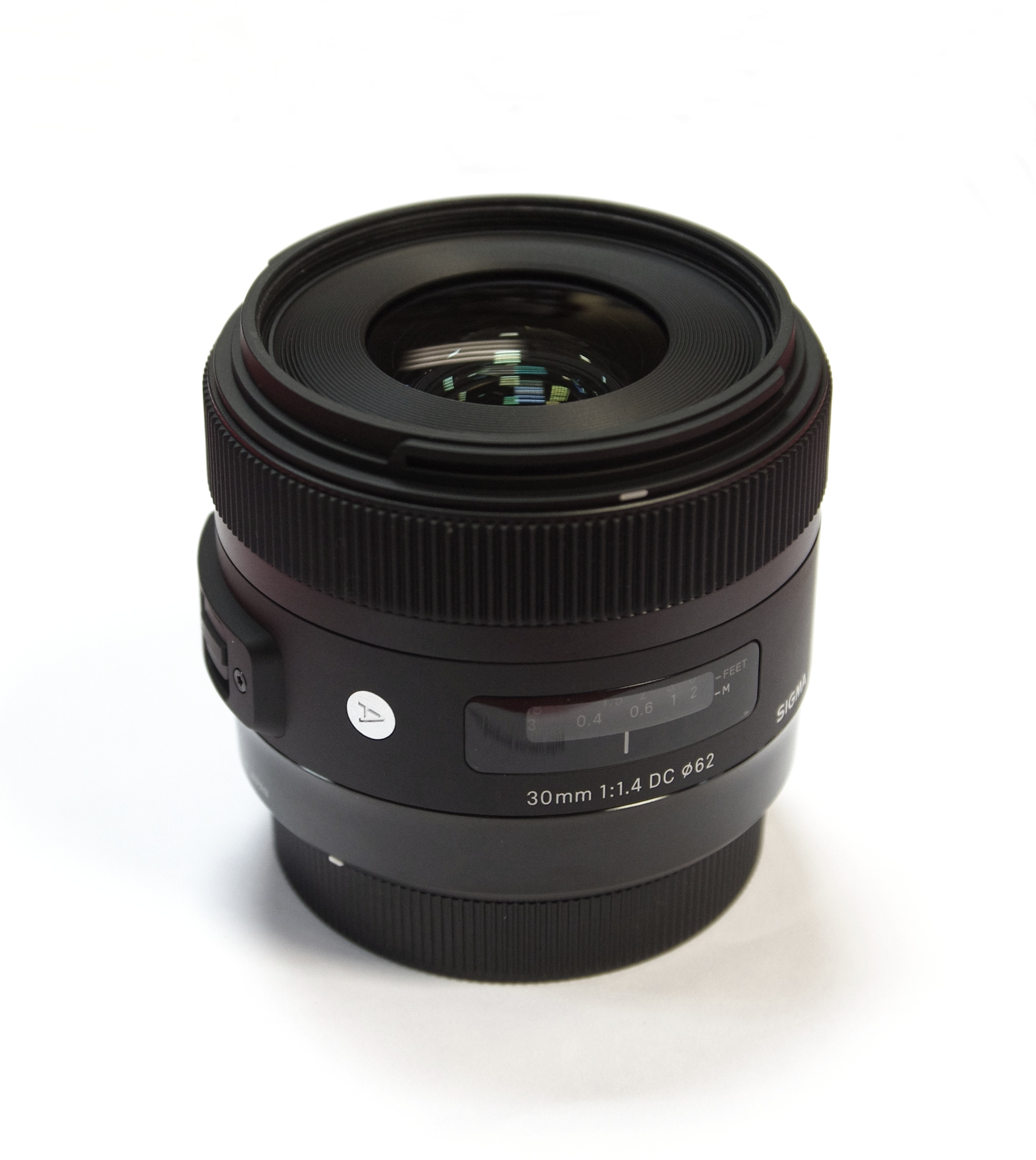 Sigma 30mm F1.4 DC HSM lens (Art series) for APS-C cameras with Canon EF mount.